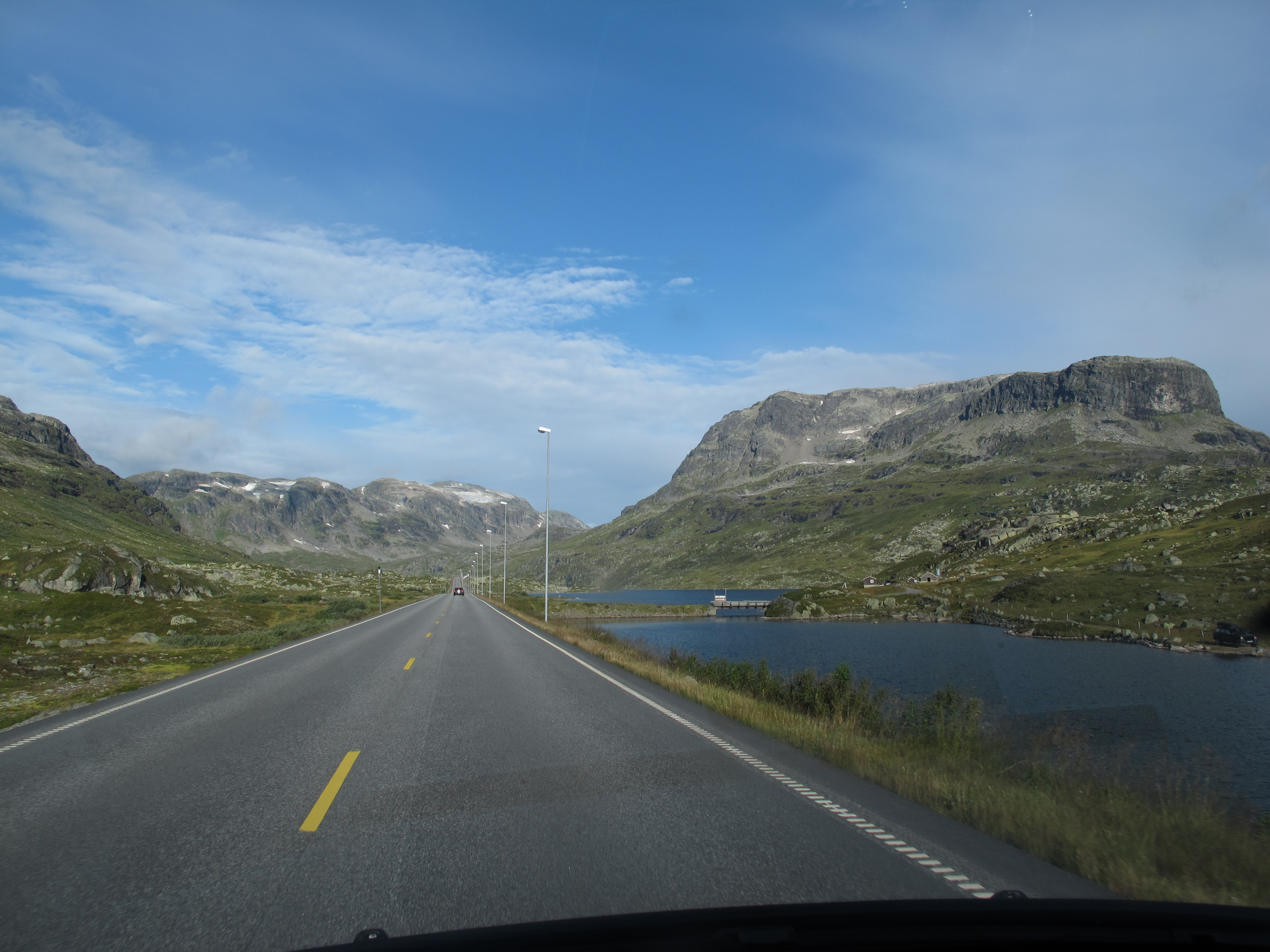 Picture from E134 heading west. Staavatn ends here, on the other side of the bridge is Ulevåvatnet. An excavated channel is on the bottom of the body of water next to the road and under the bridge.